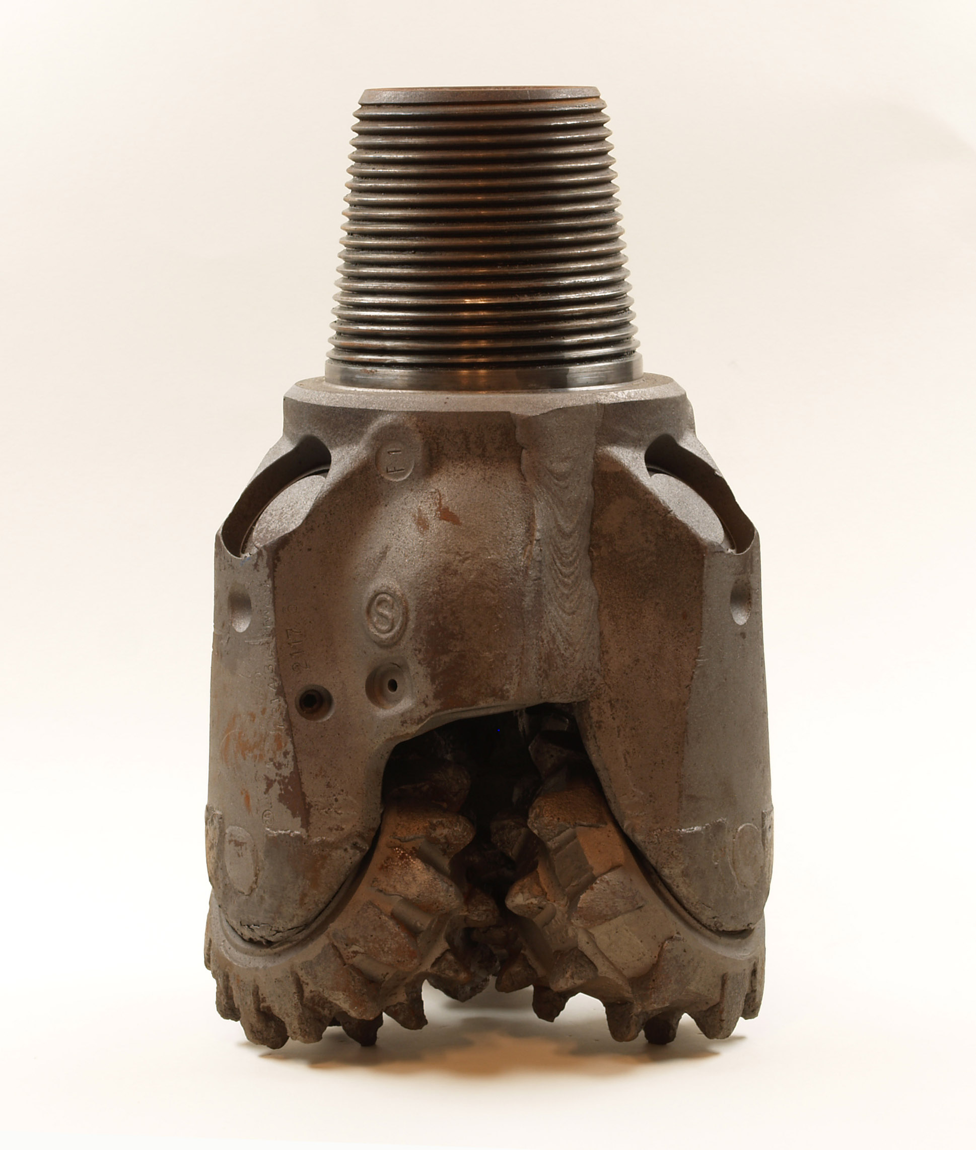 Drill bit, 8 3/8 inch